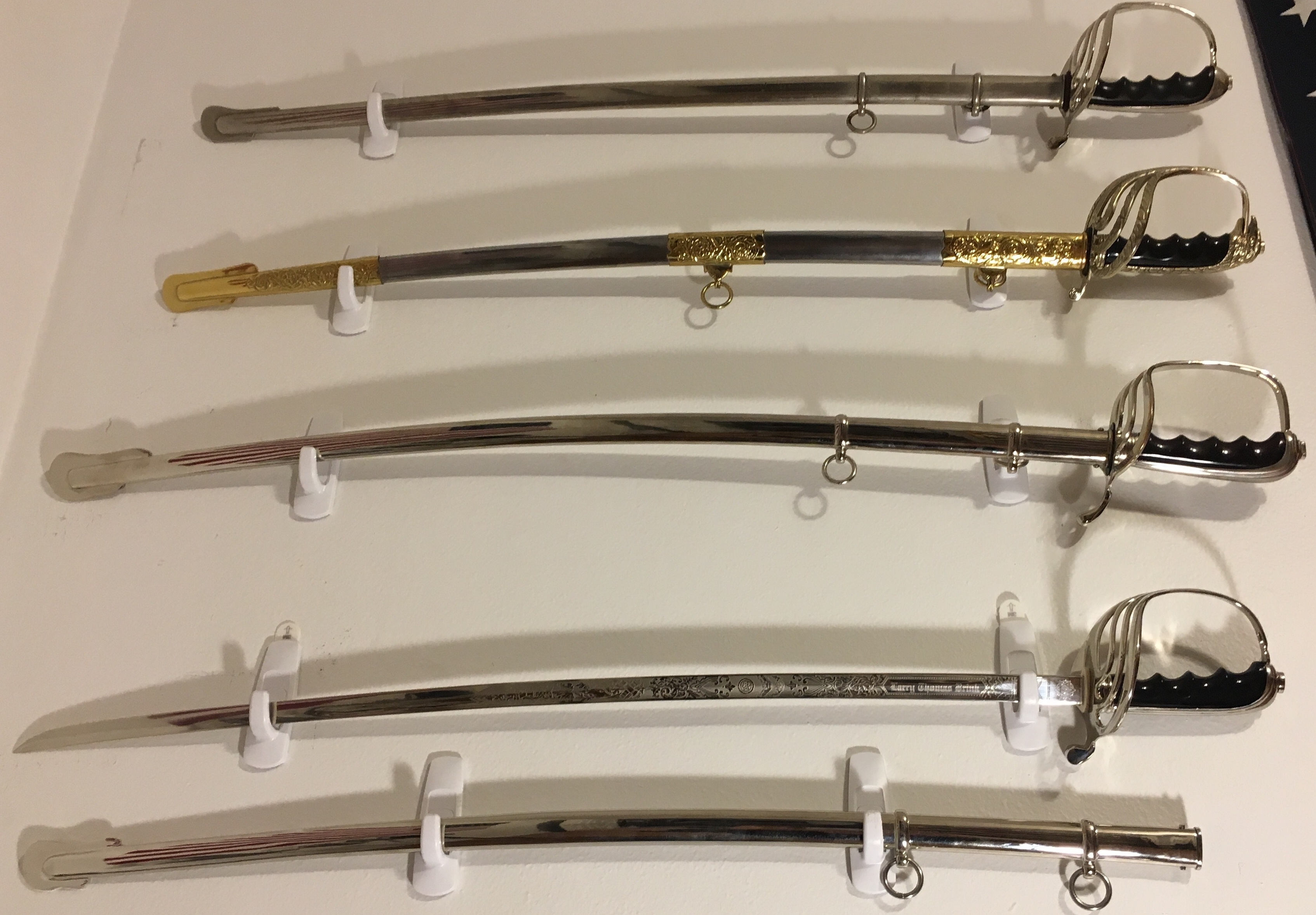 Photo of a collection of U.S. Army M1902 Sabers of various makes.